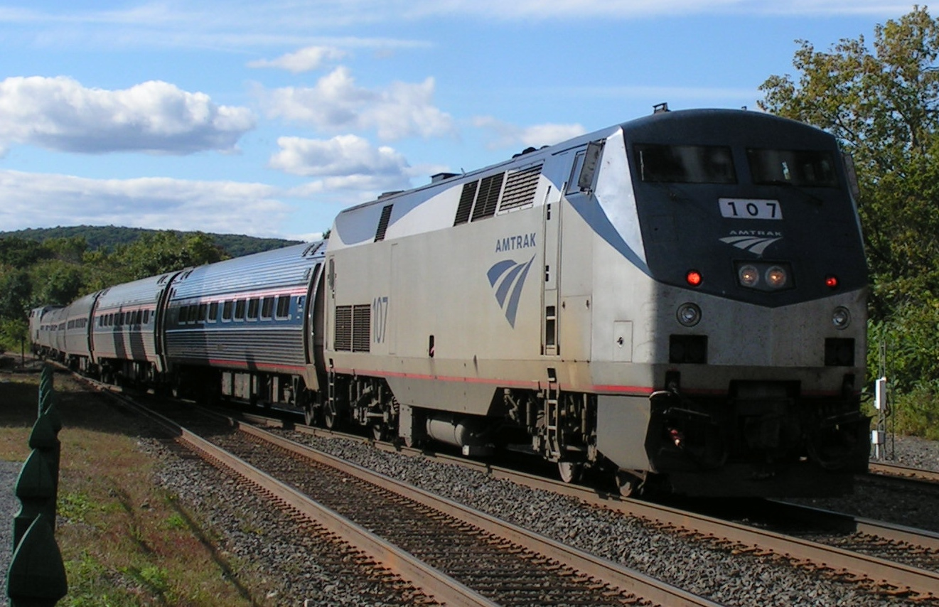 The northbound Vermonter from Springfield (headed for St Albans, VT) crossing the diamond at Palmer, preparing to meet the southbound train. The northbound and southbound trains meet in Palmer and switch crews; the crew from the S.B. one gets on the N.B. and heads back up to VT, and vice versa.